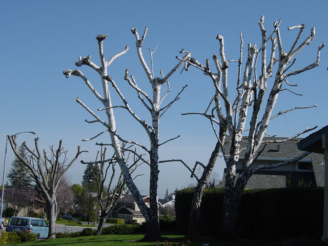 Freshly pruned trees.